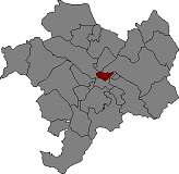 Location of Santa Fe del Penedès in Alt Penedès